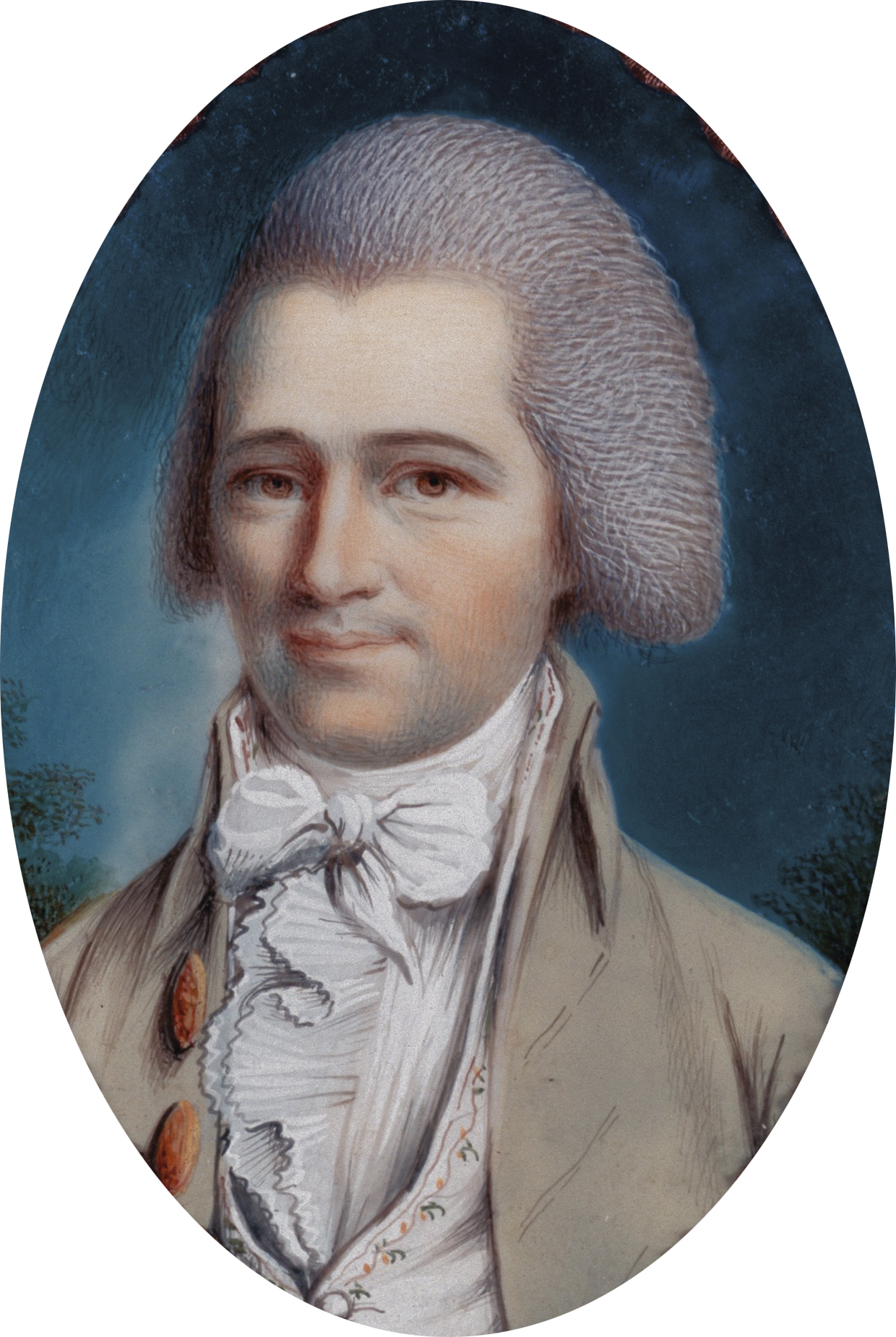 Portrait of the successful dry-goods merchant Elijah Boardman (1760–1823) presumably as a gift for Boardman's fiancée, whom he would marry in 1792.